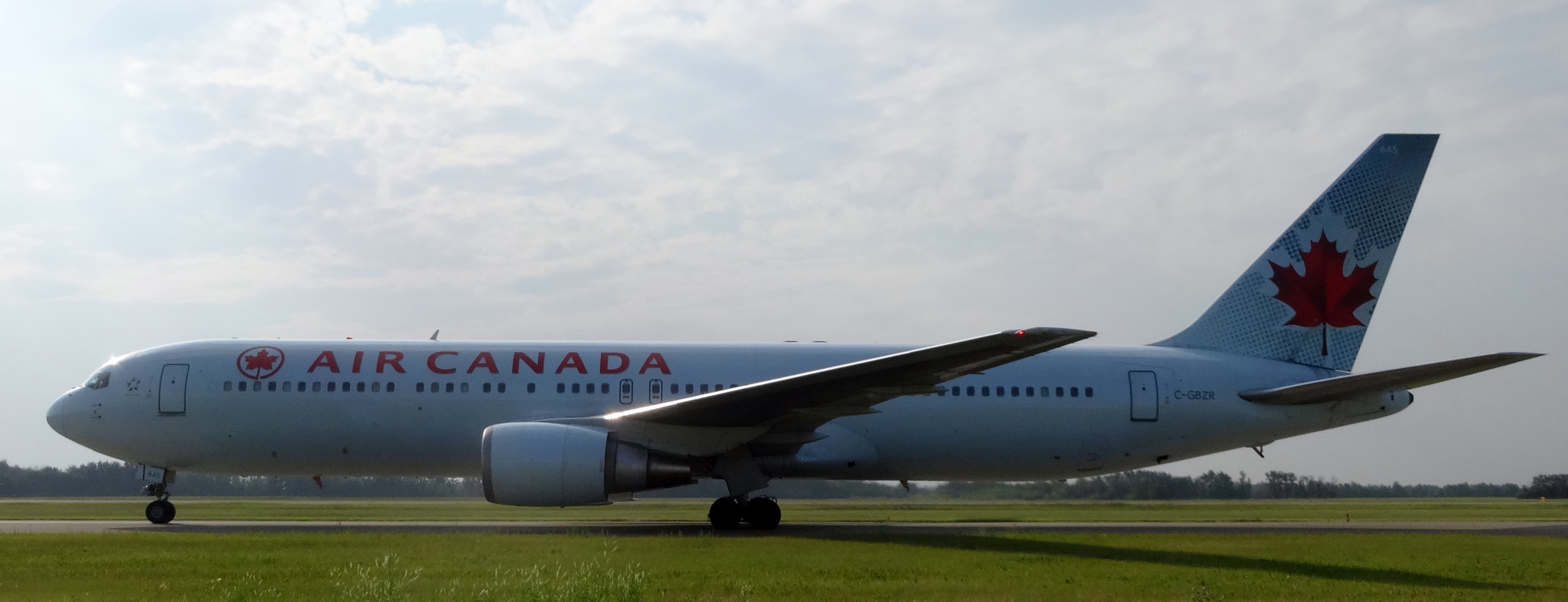 Air Canada 767 at Edmonton International Airport